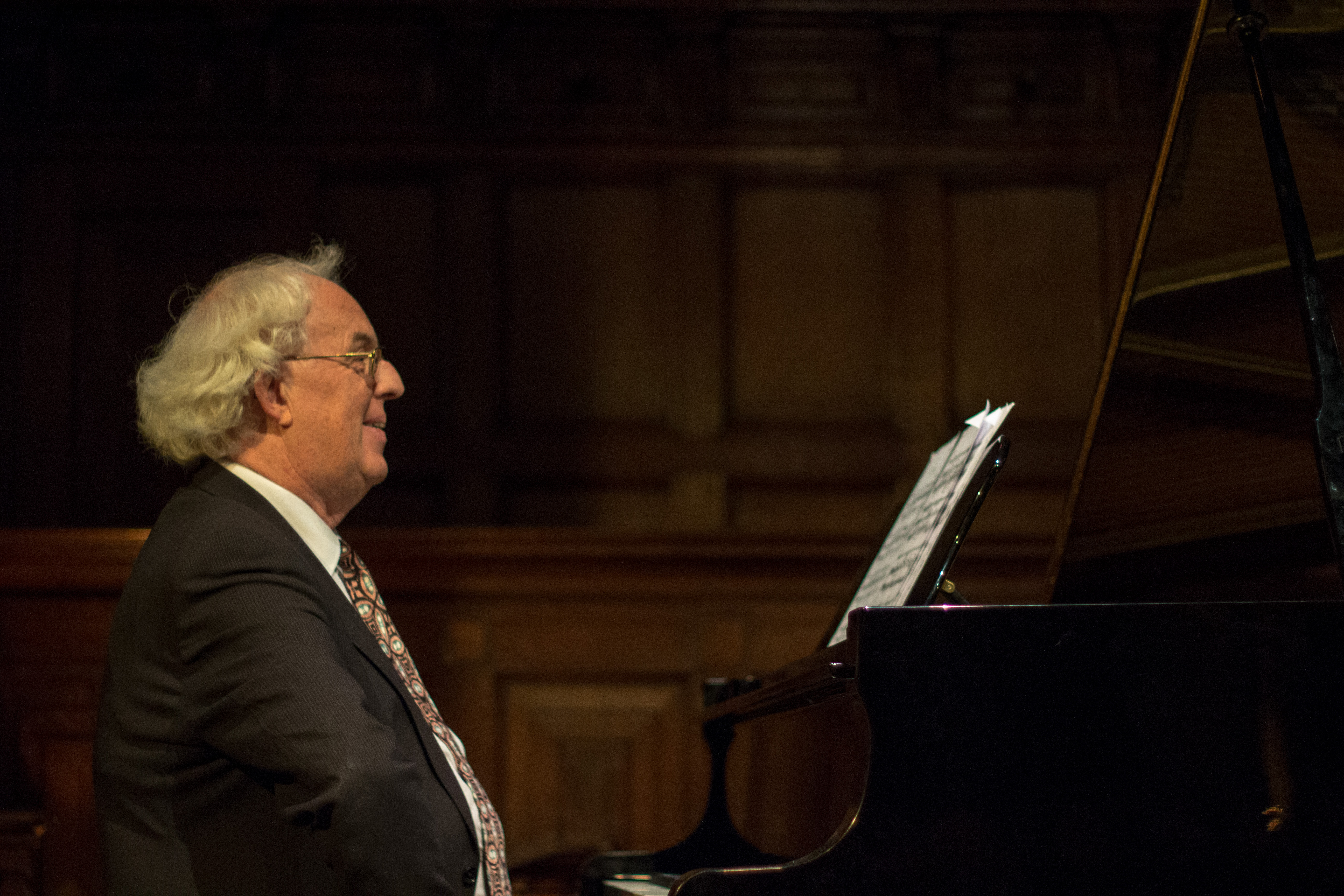 Frans van Ruth at the fundraising party for the second volume of the book "1001 vrouwen"